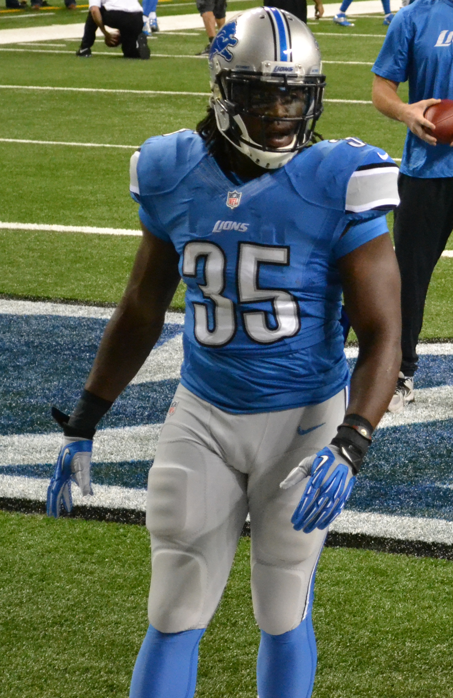 Joique Bell warming up before a Detroit Lions football game on 2013-09-29